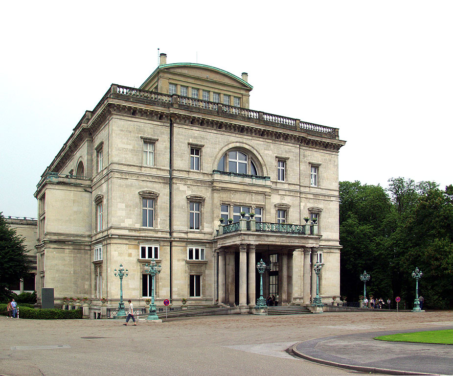 Villa Hügel, the old home of the Krupp-family in Essen, Germany